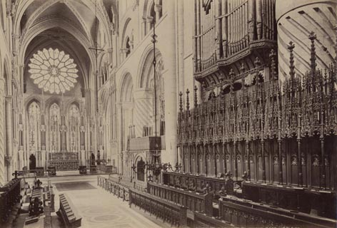 The choir of Durham Cathedral by James Valentine, c.1890.